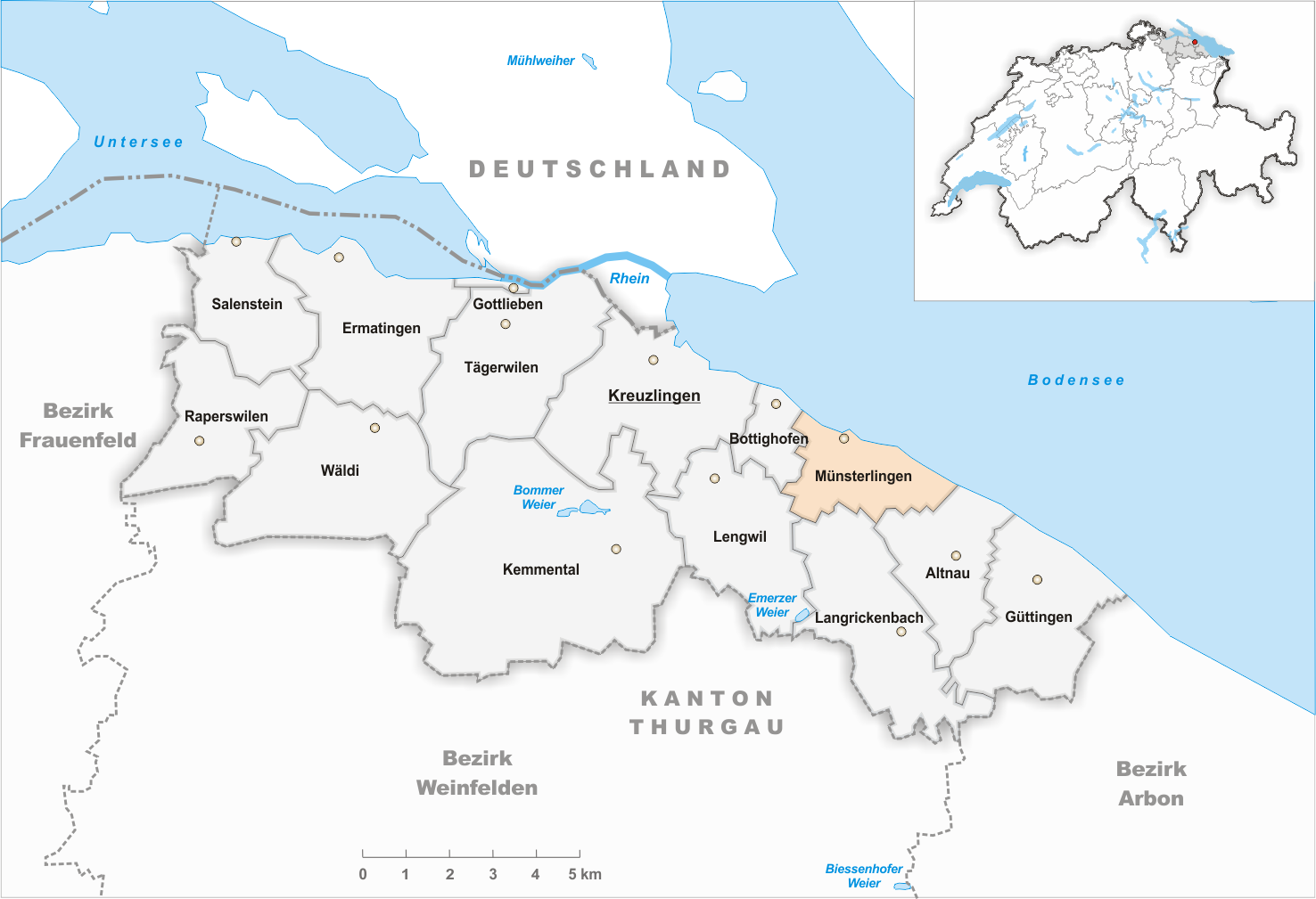 Municipality Münsterlingen